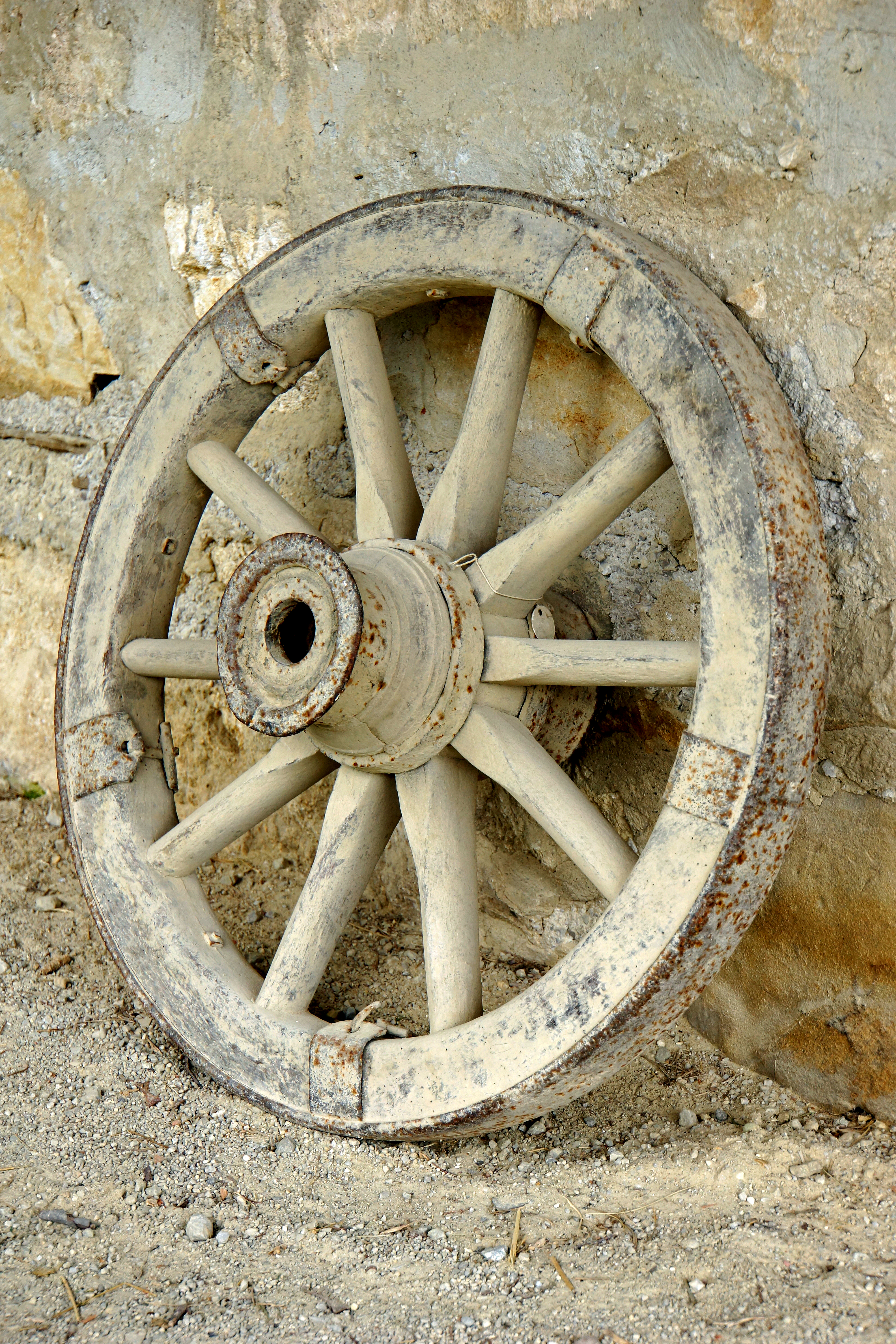 Old wagon wheel outside the barn behind the Tito birth house. I liked the tones and texture. Kumrovec is a village in the northern part Croatia. The Kumrovec village has only 269 people. The old part of Kumrovec comprises the Ethnological Museum with 18 village houses, displaying permanent exhibitions of artifacts related to the life and work of Zagorje peasants in the 19th/20th century. The village is small but was of great popularity in the former Yugoslavia. The reconstruction and decoration of these houses started in 1977. So far 40 houses and other farm-stead facilities have been restored, which makes Staro Selo the most attractive place of this kind in Croatia. Visitors may see permanent ethnological exhibitions such as the Zagorje-style Wedding, the Life of Newly-weds, From Hemp to Linen, Blacksmith's Crafts, Cart-wright's Craft, Pottery, From Grain to Bread, etc.